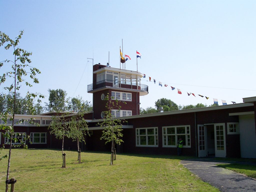 This picture may have usage restrictions - Aviodrome Lelystad - replica of old terminal